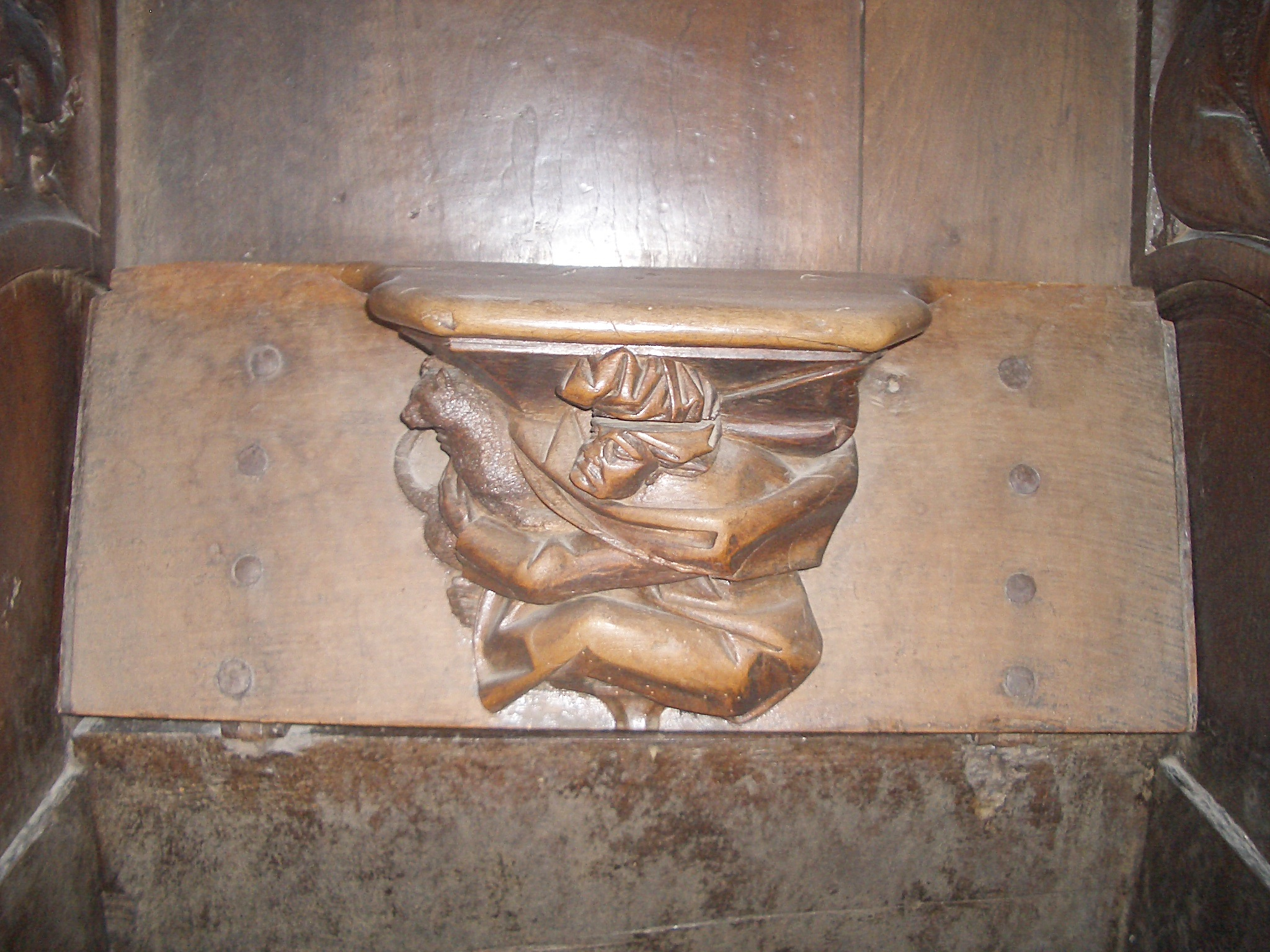 León Cathedral, the choir stalls, a “misericord”(i.e. hinged seat in a choir stall against which a standing person could lean), 1467 -1481